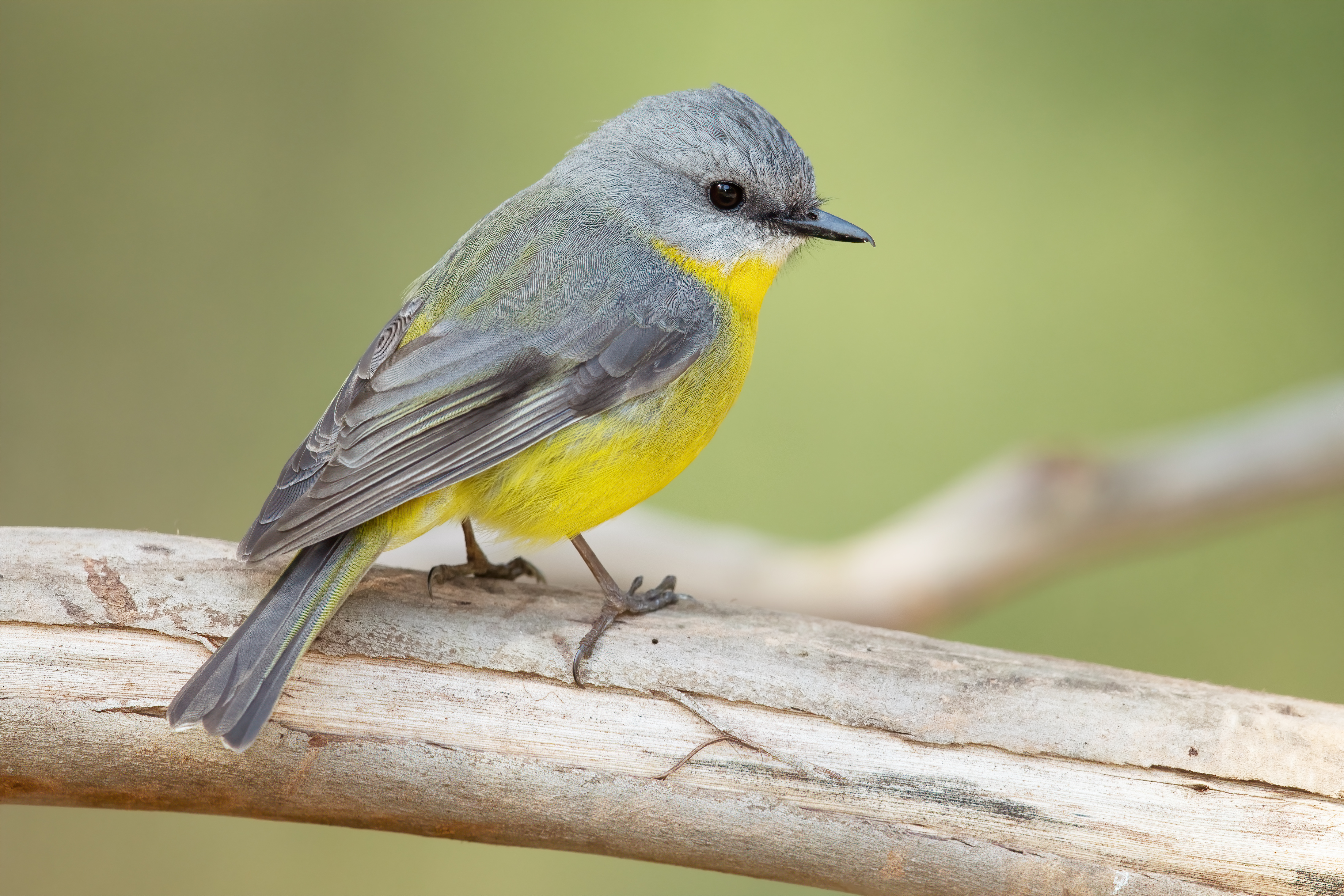 Eastern Yellow Robin (Eopsaltria australis), Mogo Campground, New South Wales, Australia